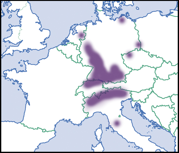 Vitrinobrachium breve (Férussac, 1821). Distribution in Europe, scientific state of knowledge of 2012. Source description in English. Light colour indicated rare occurrences or regions where the species could eventually be expected to occur. Dark colour indicated relatively reliable occurrences, as well as regions where the species was expected to occur, and where the species was not known to be extremely rare. Dark colour indications were not necessarily based on published records. Species summary in AnimalBase